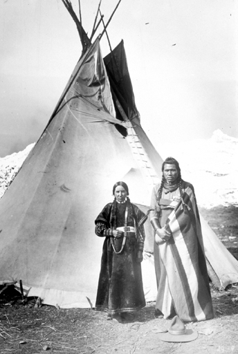 Nez Perce man and woman pose in front of tepee, with mountain behind them. Woman in full length dress over blouse, with long necklace & beaded belt stands beside man with blanket over shoulder and around waist. Plain tepee is behind them, and behind it is snow-covered peak.